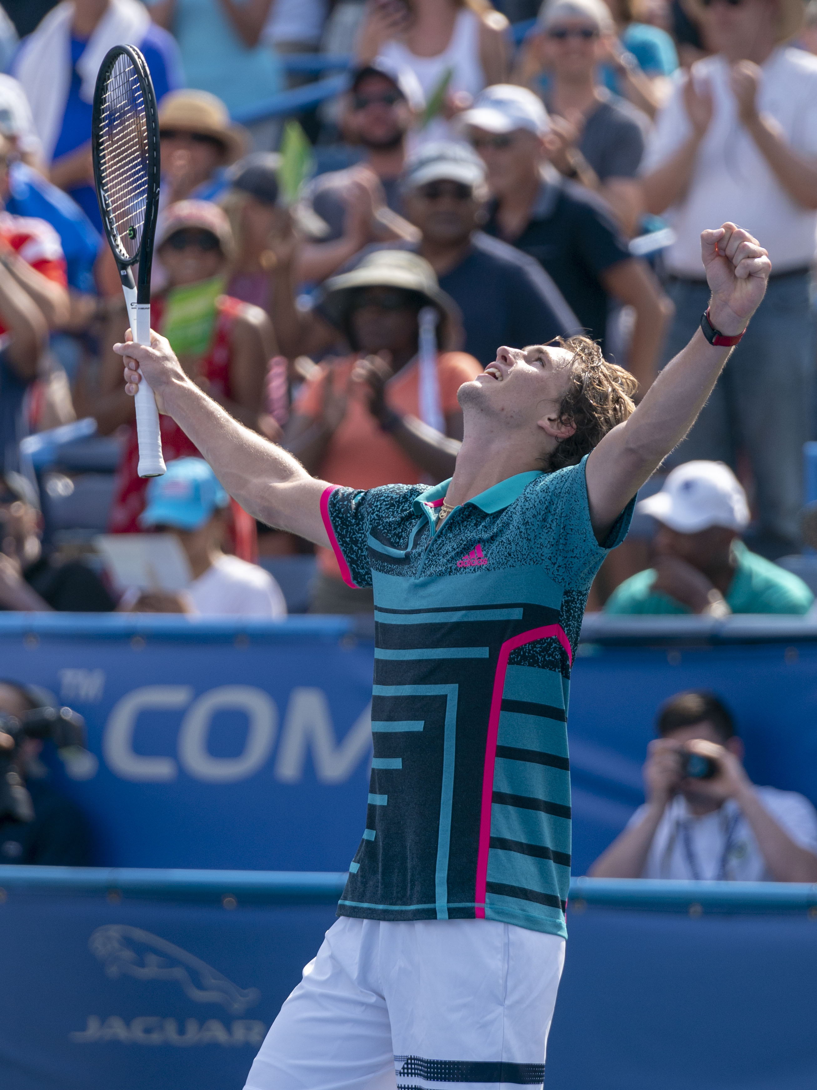 Alexander Zverev celebrates winning the men's singles final at the Citi Open tournament at Rock Creek Park Tennis Center on August 5, 2018 in Washington D.C..